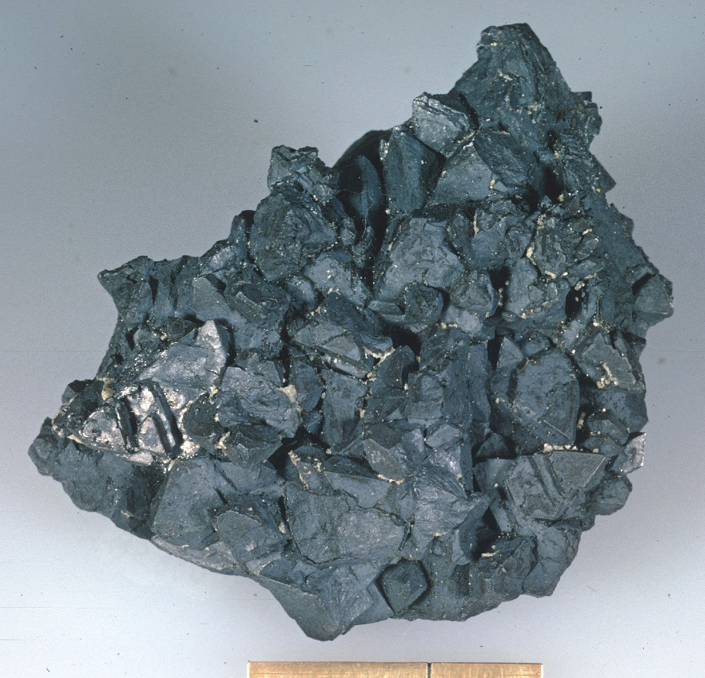 Argyrodite Locality: Colquechaca (Aullagas), Chayanta Province, Potosí Department, Bolivia Original description: Argyrodite crystals. Specimen is from the collection of the Smithsonian Institute (#85860), Washington DC. USA. Specimen was labeled Argyrodit-Canfieldite. Scale at bottom of image is an inch with a rule at one cm.